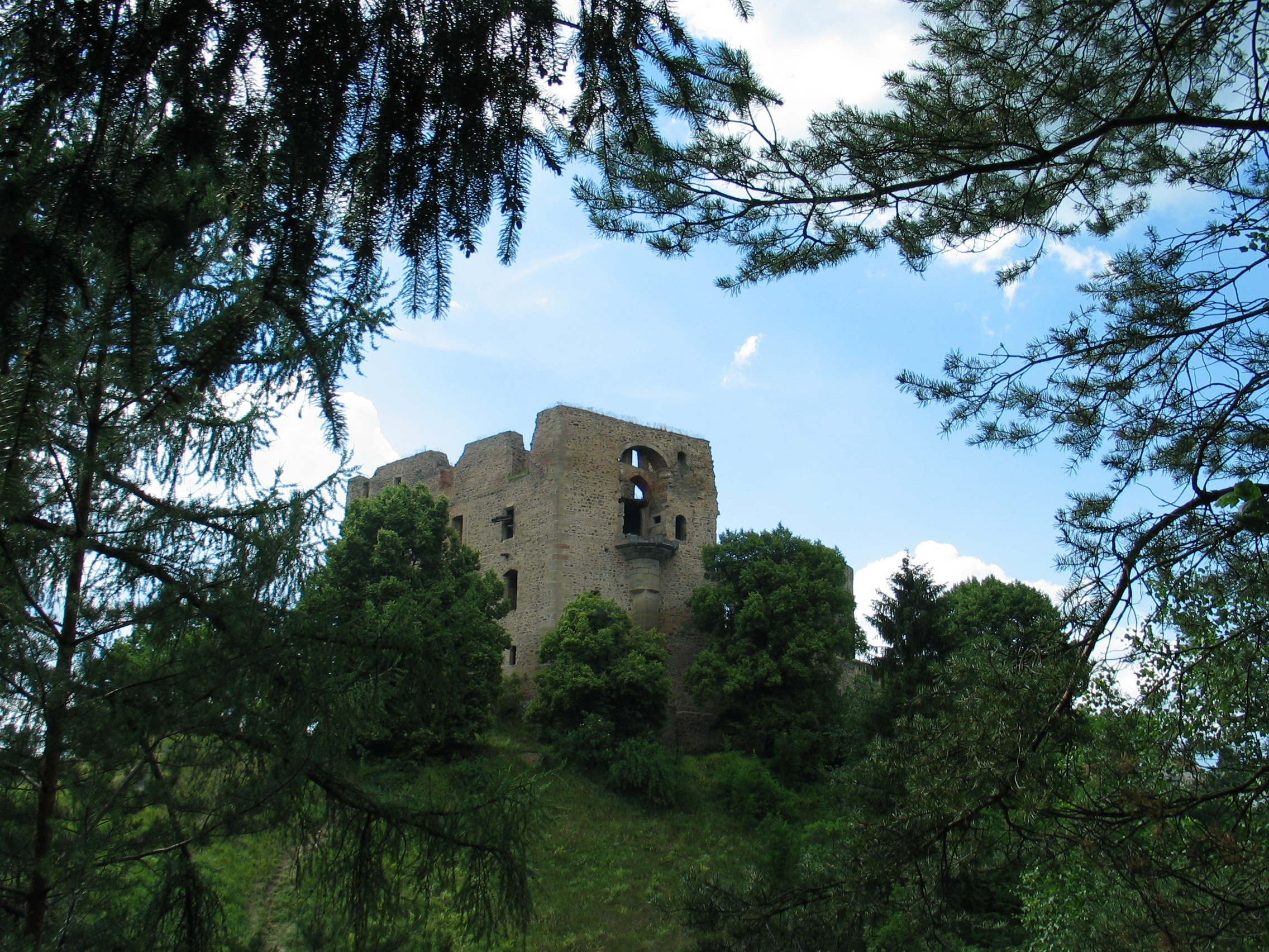 Ruin of Krakovec Castle, Czech Republic. A view from SE.